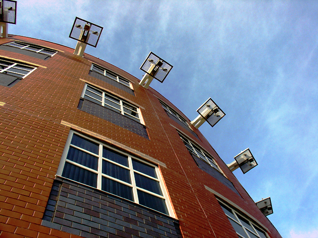 The New Brunswick series was made possible by LarimdaME, who gave me a pro account as a gift. Thank you, LarimdaME! This is the building of the Bloustein School of Planning and Public Policy at Rutgers University in New Brunswick, New Jersey. I like that building a lot, and have a soft spot for that department, from which I graduated before that building was built.